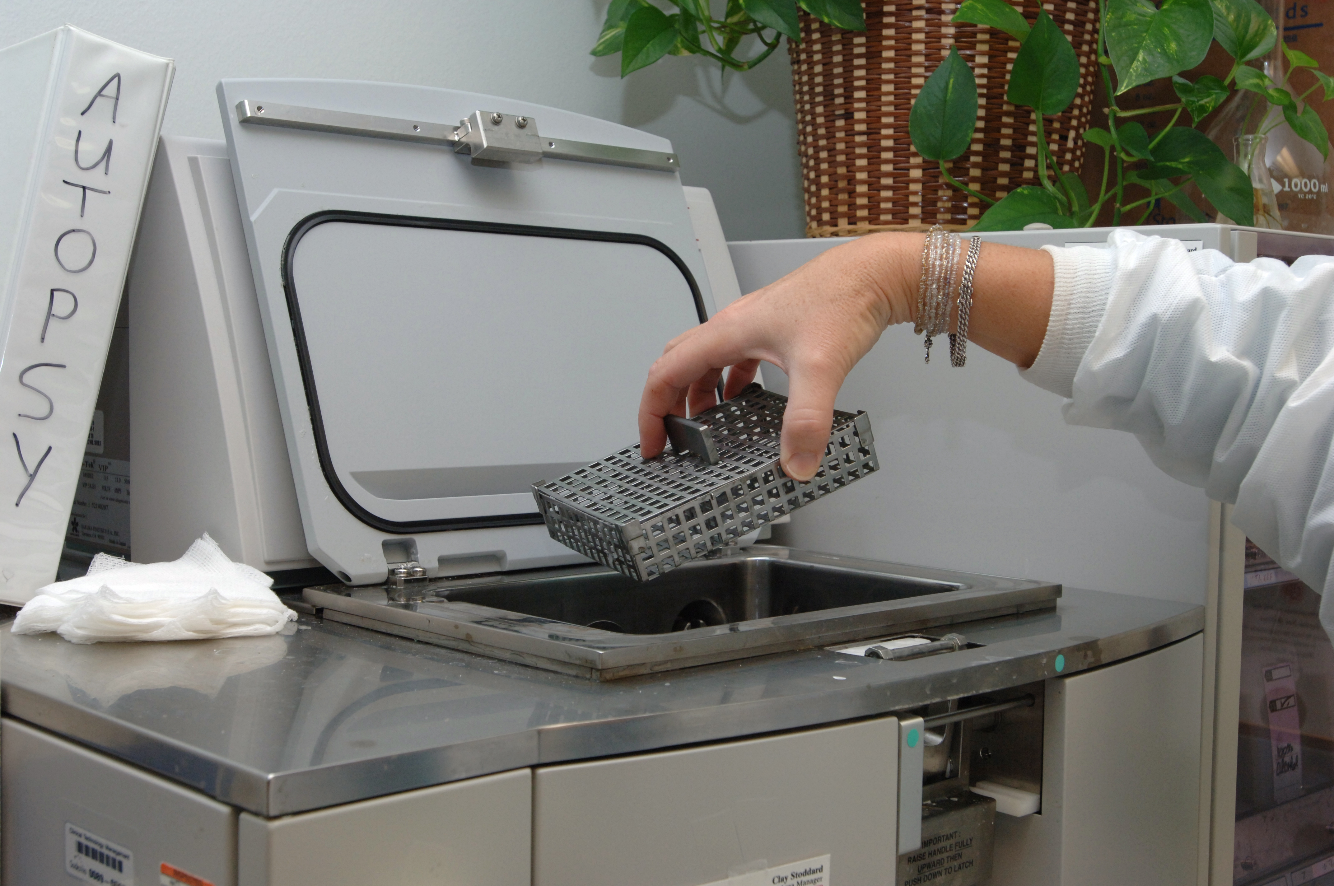 Rack is removed from the tissue processor after all water has been removed from the tissue and replaced with paraffin.